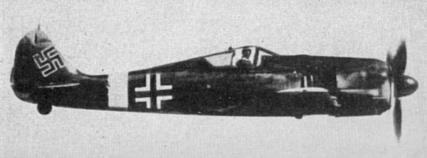 Captured Focke-Wulf Fw 190 in flying.